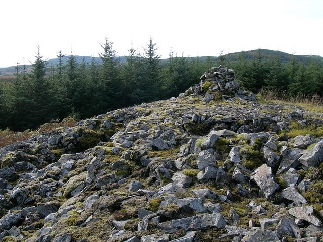 Kings Cairn The remains of a prehistoric chambered cairn on the lower slopes of Kirriemore Hill in the Galloway Forest.